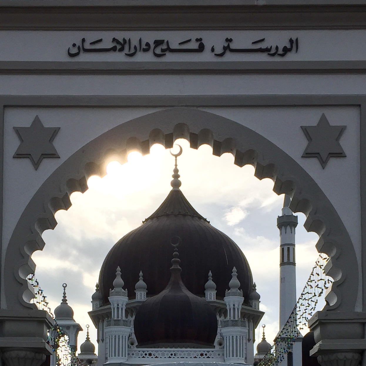 Gate of Masjid Zahir